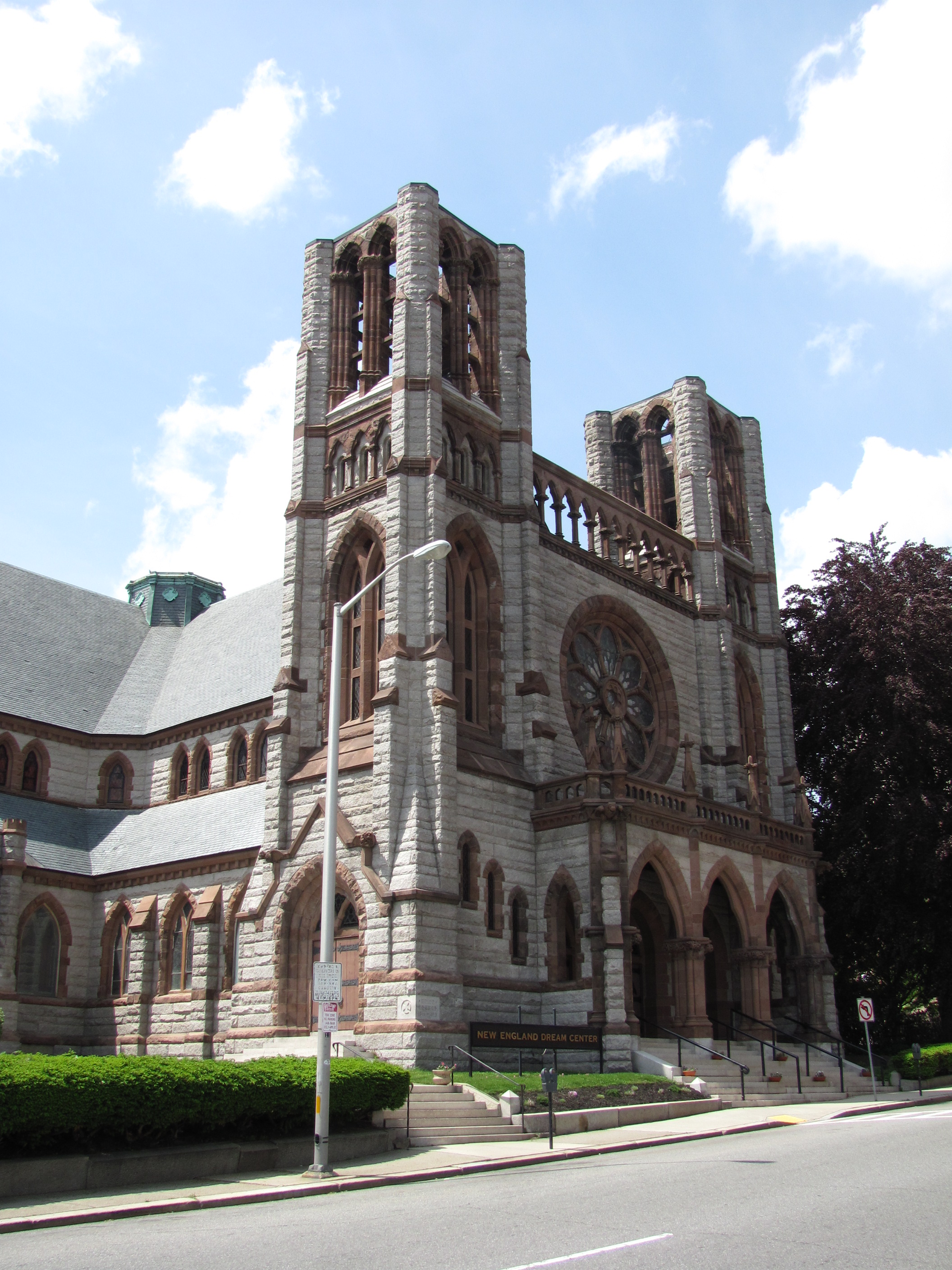 Union Congregational Church, Worcester Massachusetts